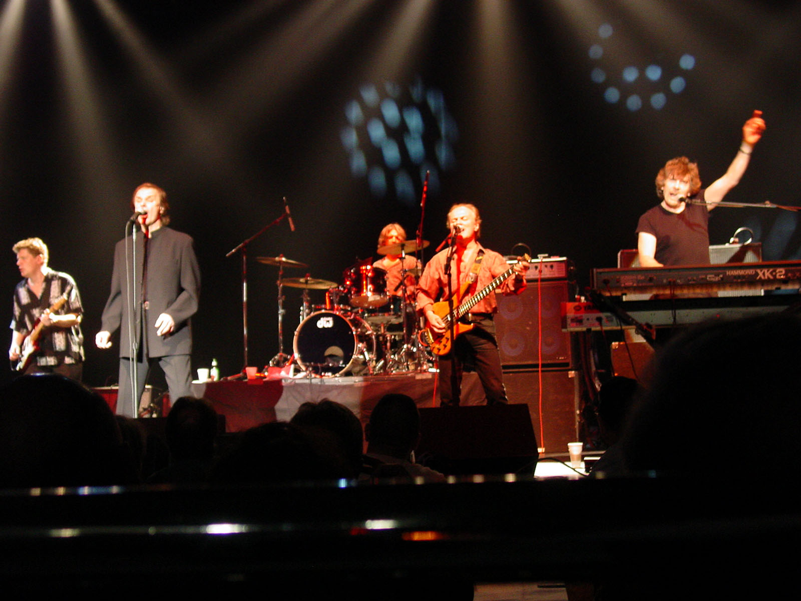 The Zombies. From left: Keith Airey (lead guitar), Colin Blunstone (lead singer), Steve Rodford (drums), Jim Rodford (bass) and Rod Argent (vocals, synthesizer).